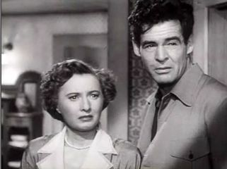 Cropped screenshot of Barbara Stanwyck and Robert Ryan from the trailer for the film Clash by Night (1952).